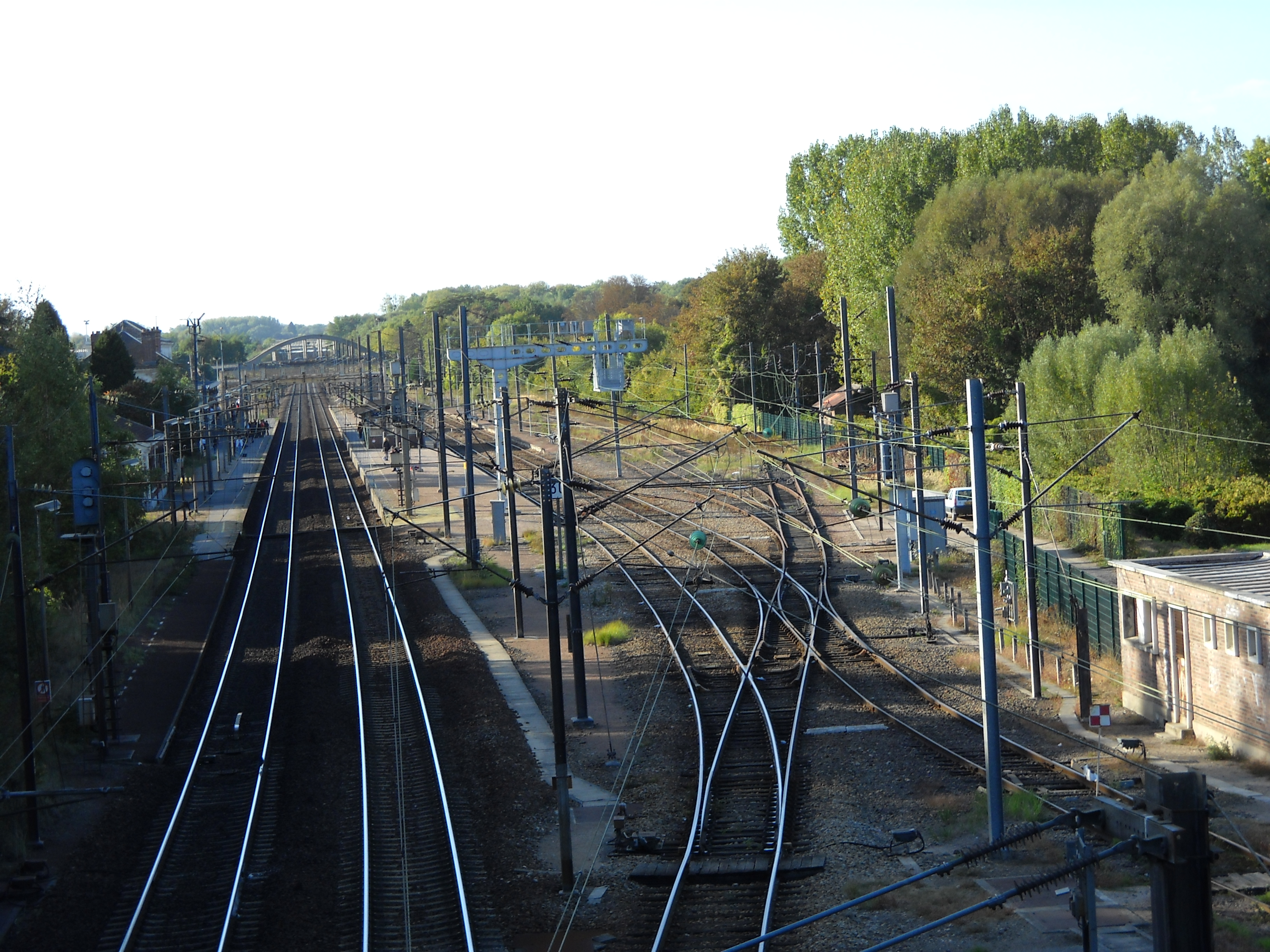 The train station of Clermont, Oise, France.